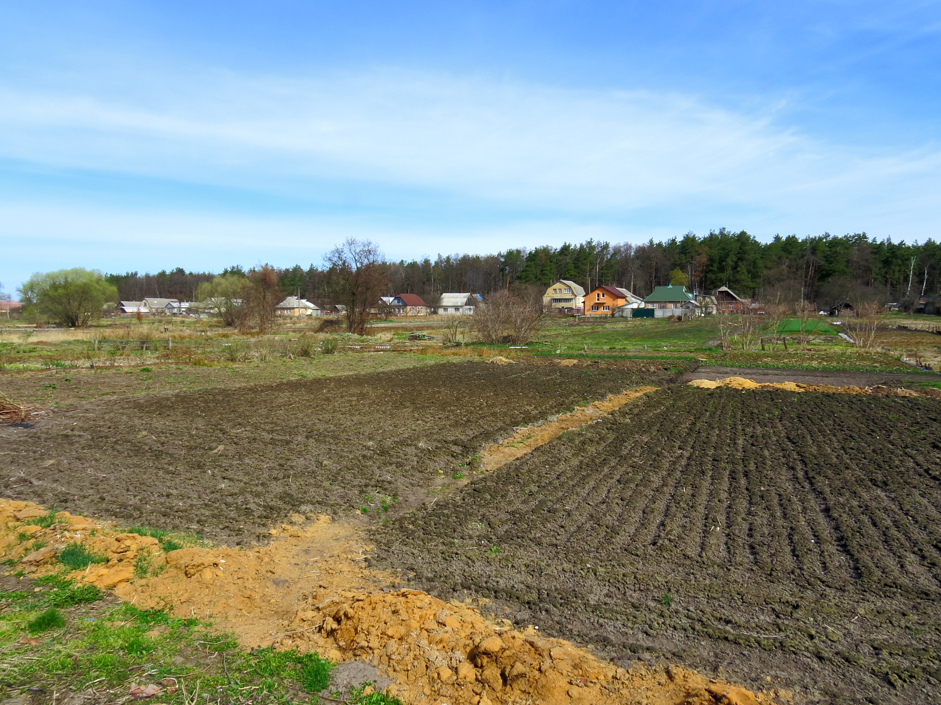 Vegetable gardens in Moshchun village, Kiev-Svyatoshyn raion, Kiev oblast, Ukraine